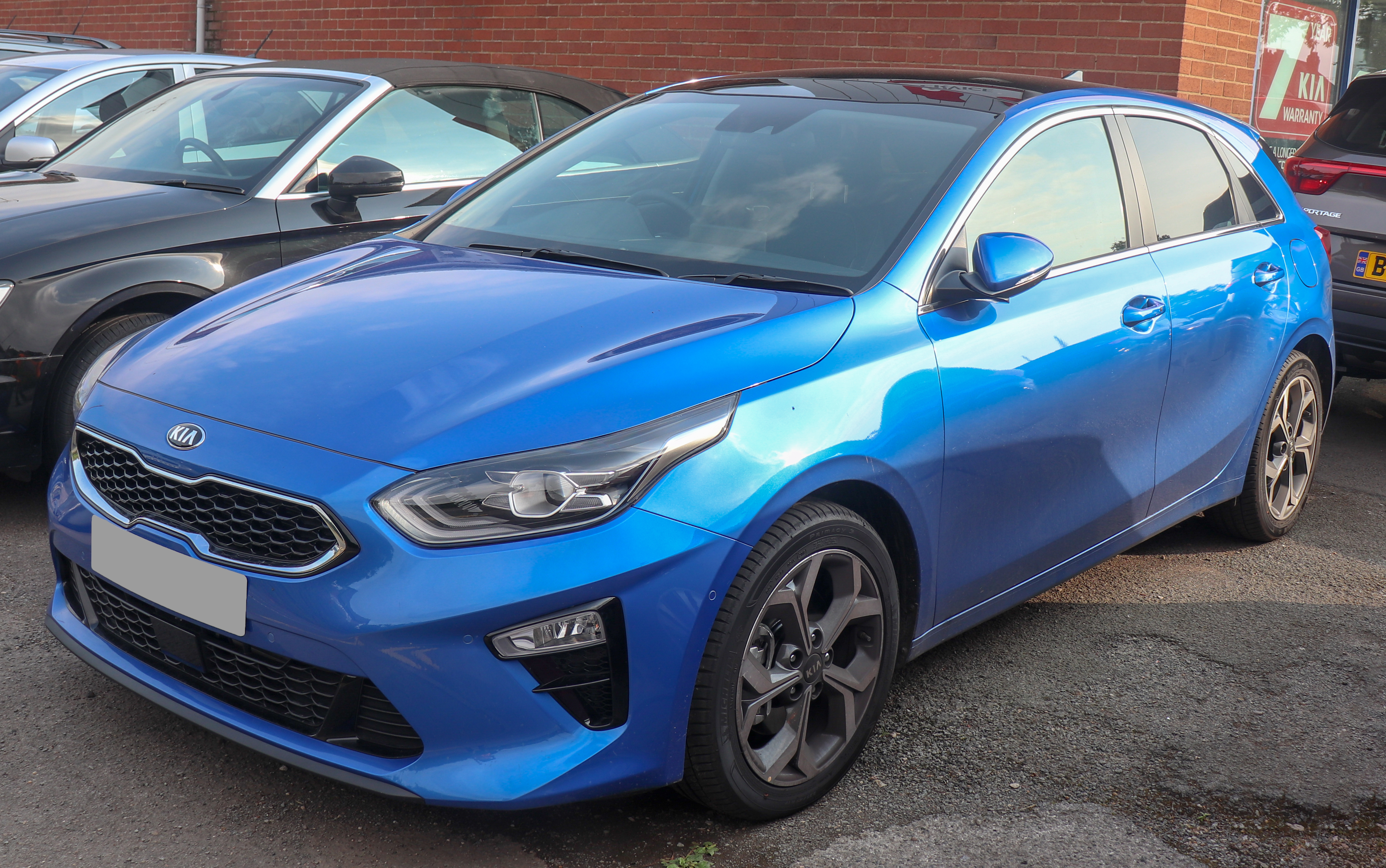 2018 Kia Ceed First Edition ISG 1.4 Front (Registered 1st August 2018) Taken in Warwick